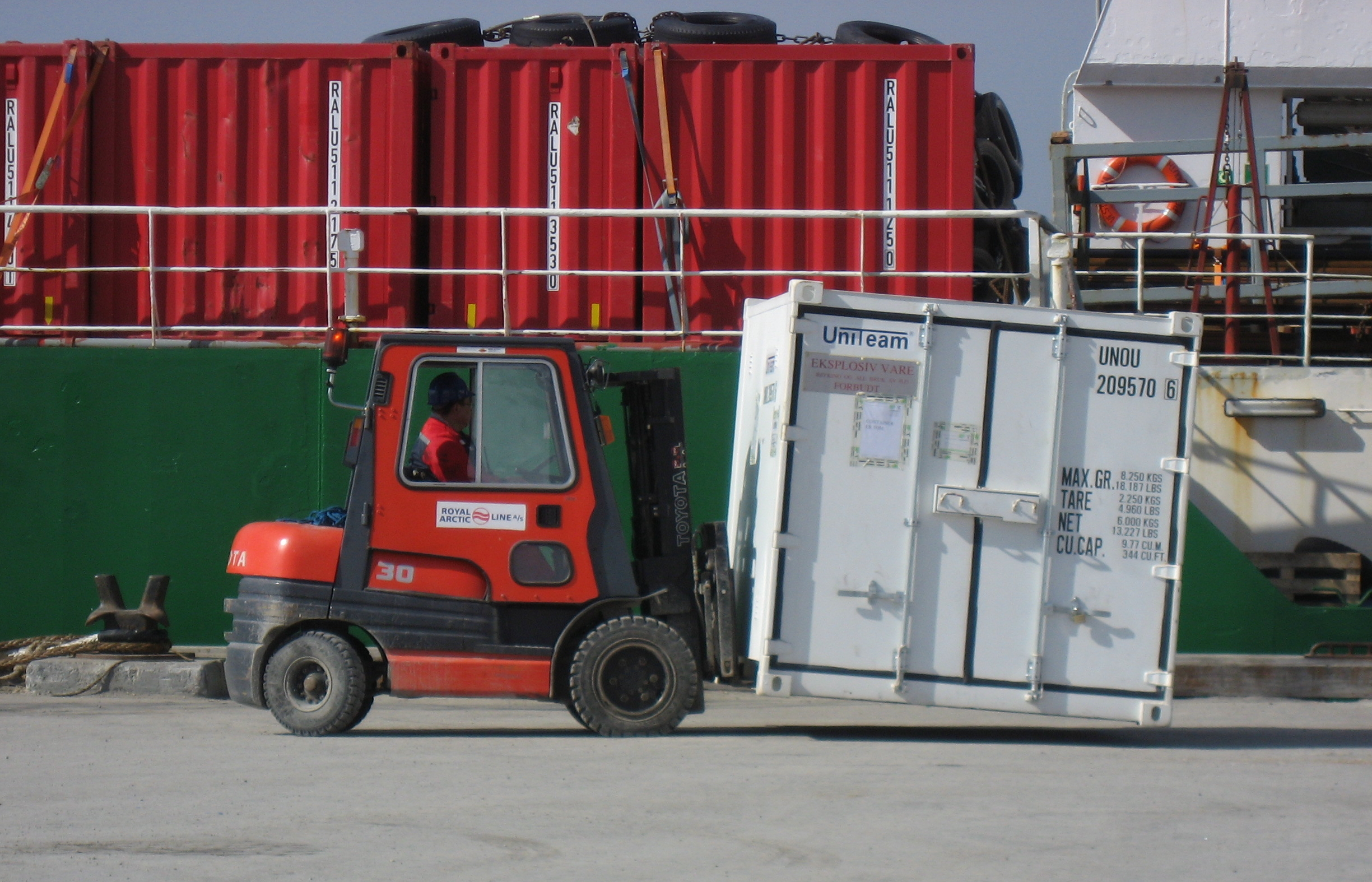 Unloading the supply ship Vestlandia operated by Royal Arctic Line at the port in Upernavik, Greenland. Small Toyota forklifts are used in the process. The container here contains explosives (according to the label).